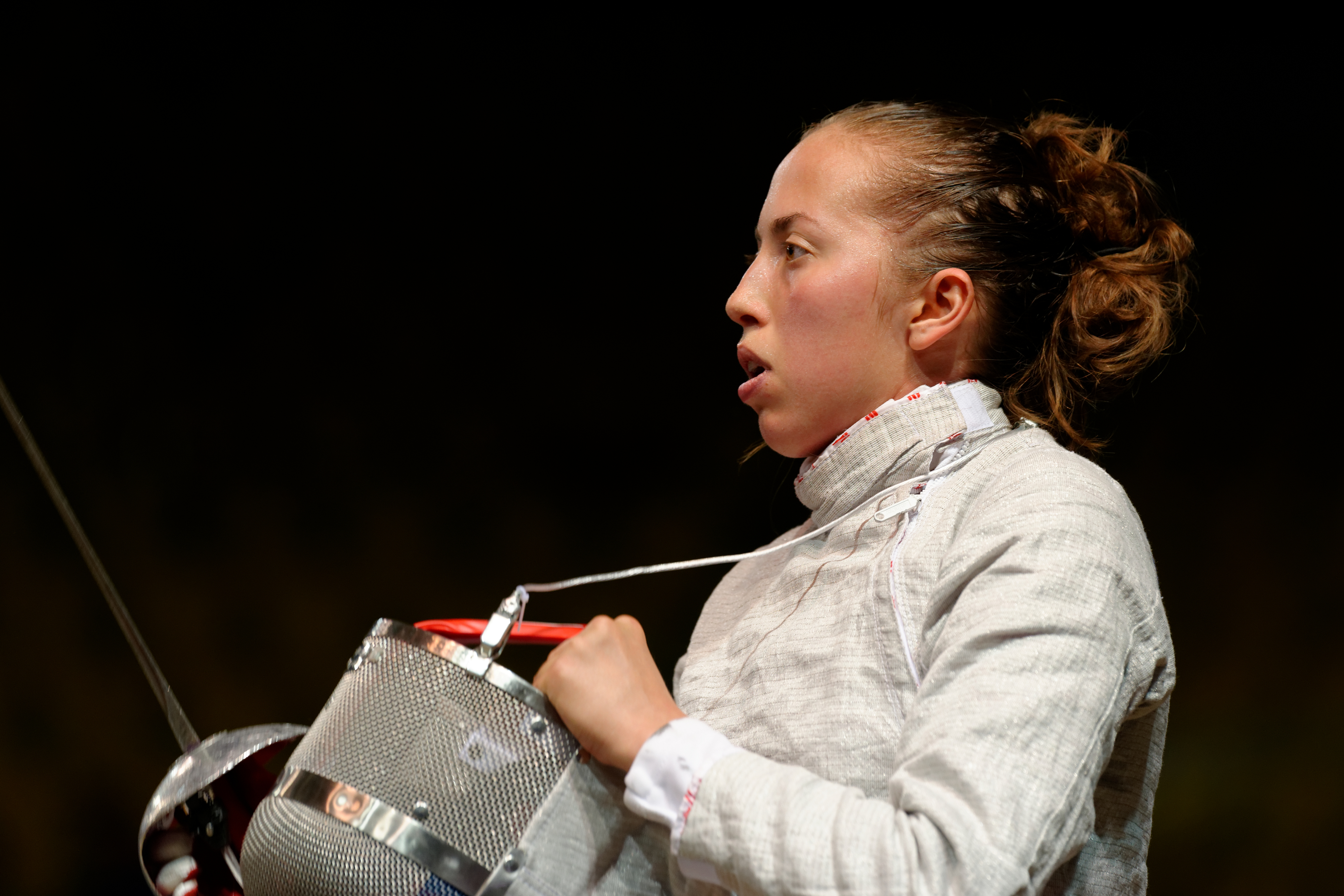 Dina Galiakbarova of Russia during their semi-final against France in the women's team sabre event at the European Fencing Championships at Rhénus Sport in Strasbourg on 13 June 2014.